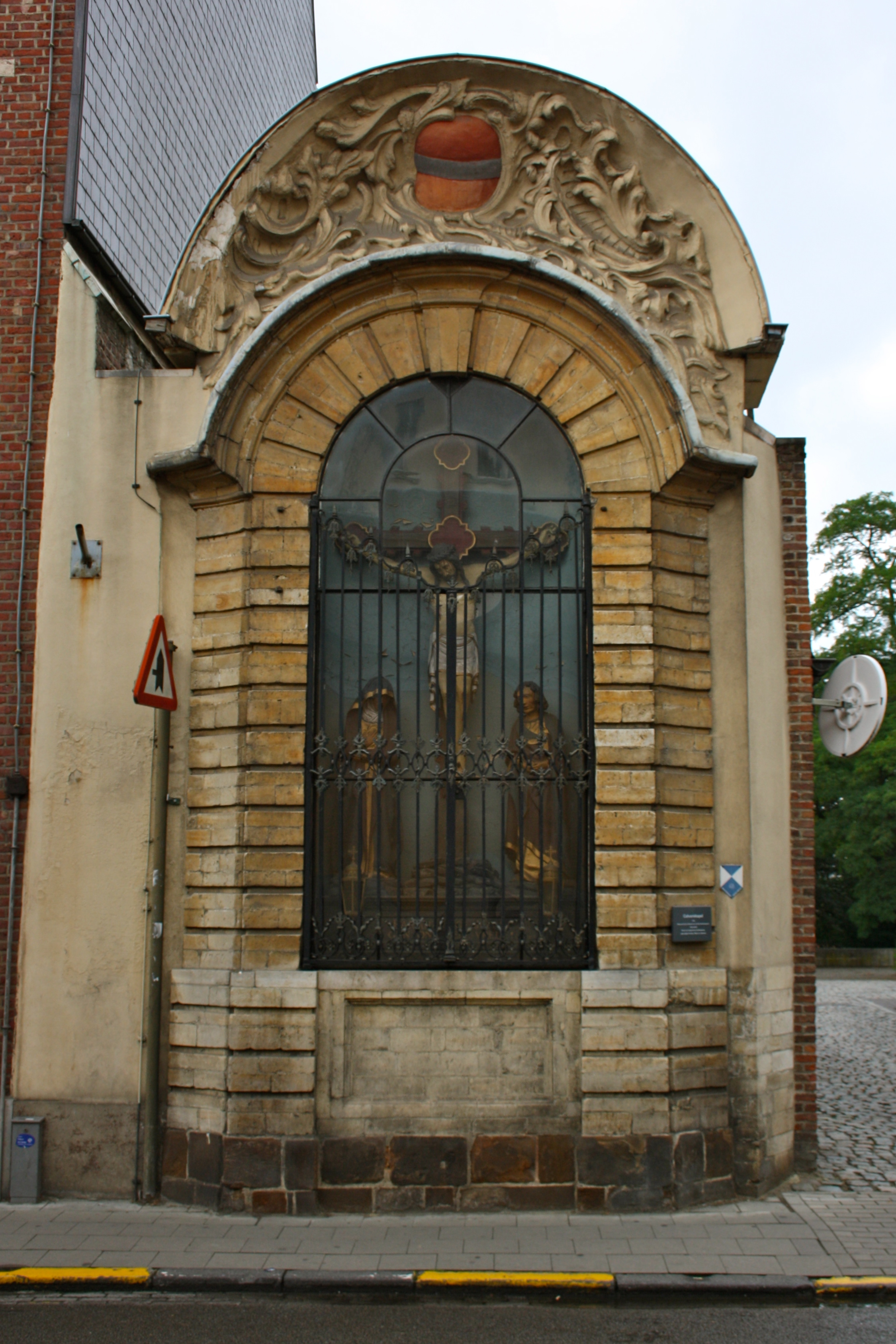 Rococo chapel, Naamsestraat, Leuven.